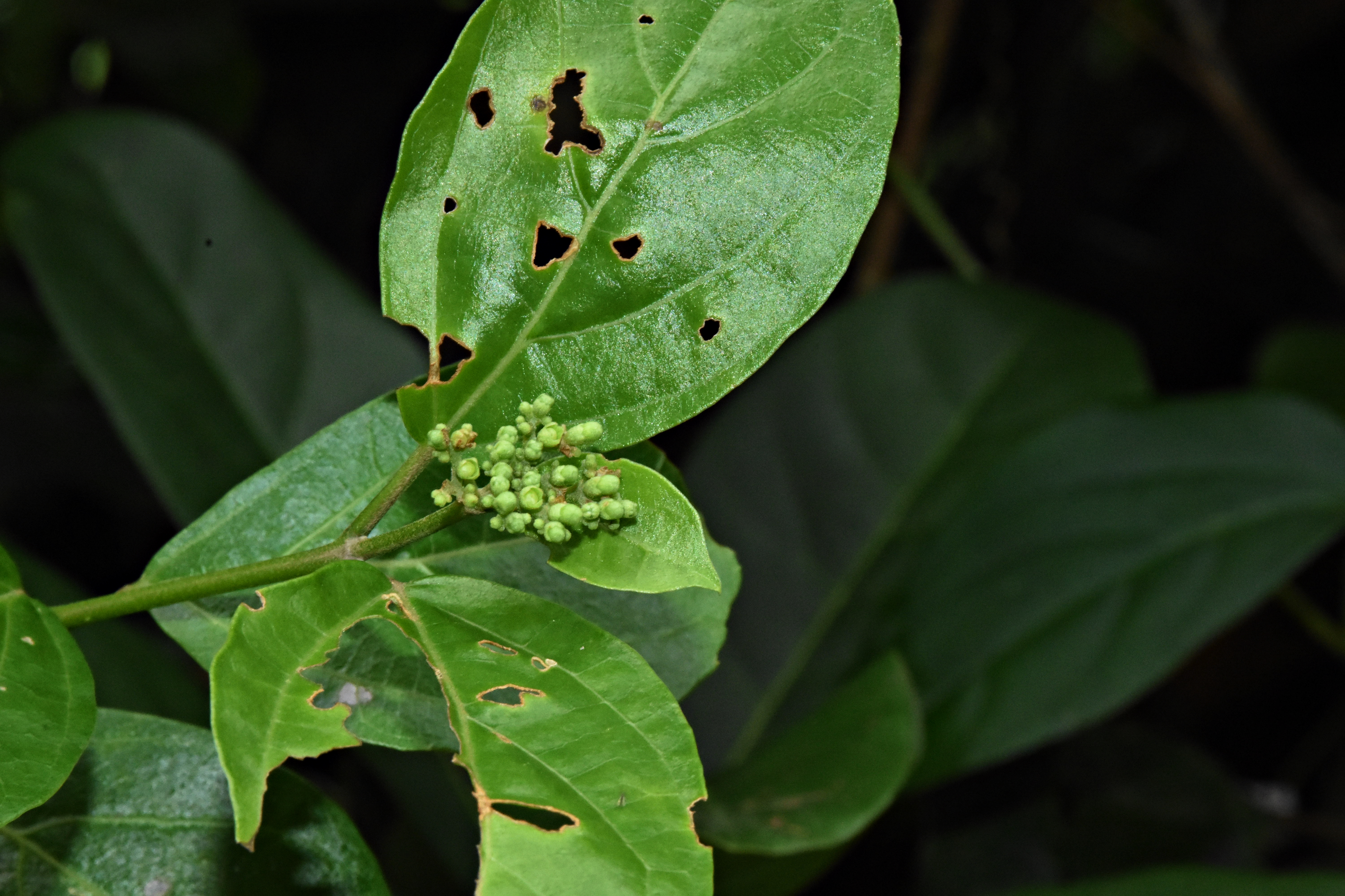 Premna serratifolia at Neeliyar Kottam